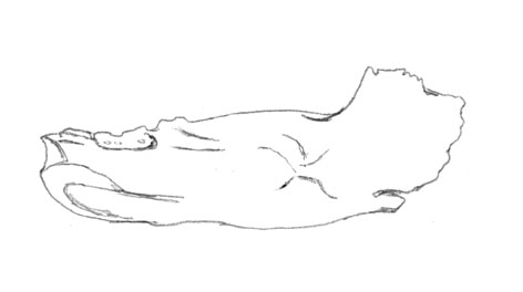 Holotype mandible of Notoceratops (now lost)